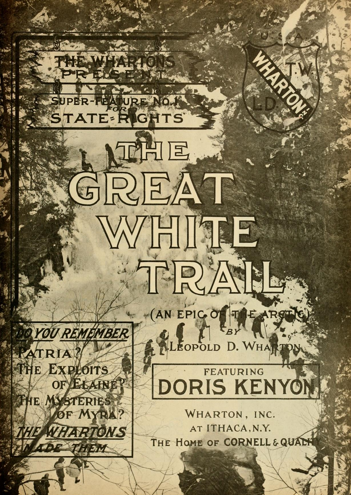 Advertisement in Moving Picture World for the film The Great White Trail (1917).